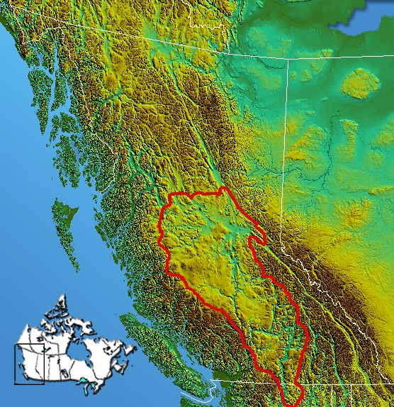 Adapted from img in Wikimedia Commons Image:Canadian_Rockies.png